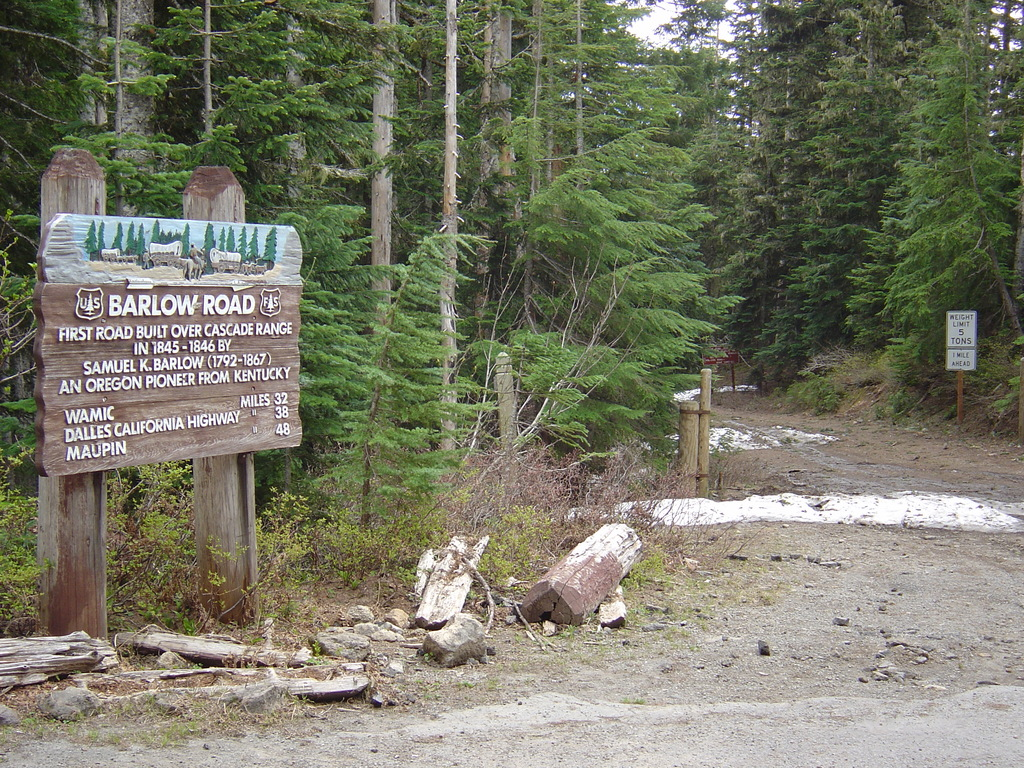 A section of the Barlow Road with informational sign.